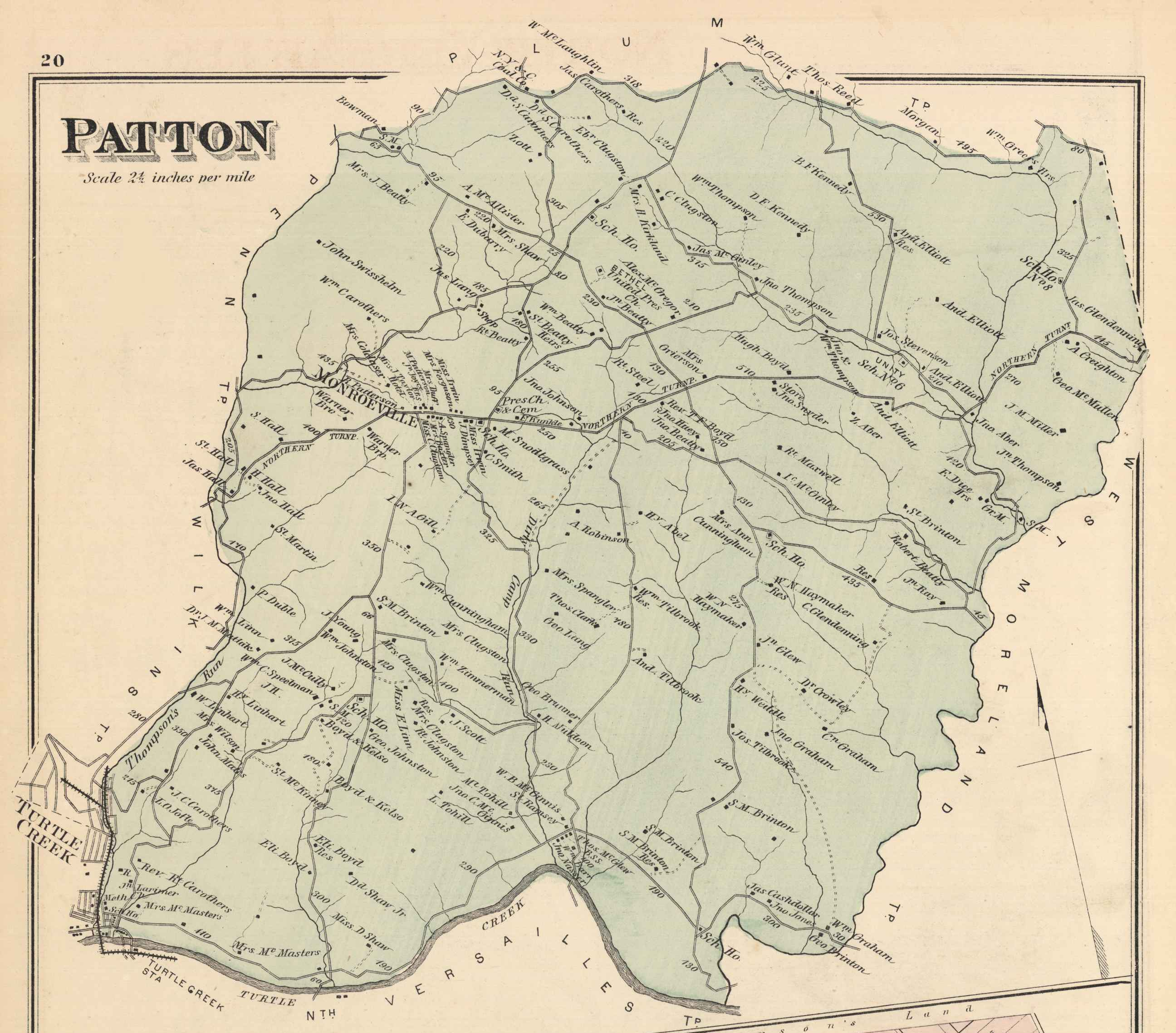 1876 G.M. Hopkins Co. map of Patton Township, Pennsylvania, from Plate 20 : Patton, Buena Vista.